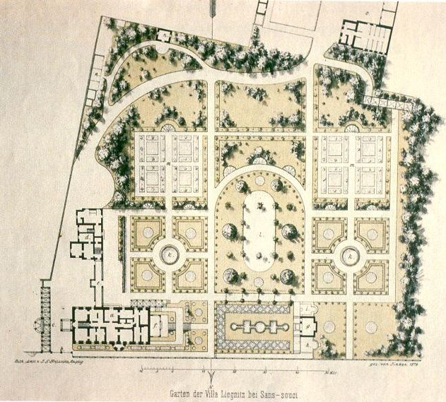 Draft of the garden Villa Liegnitz in Sanssouci, Potsdam, Germany